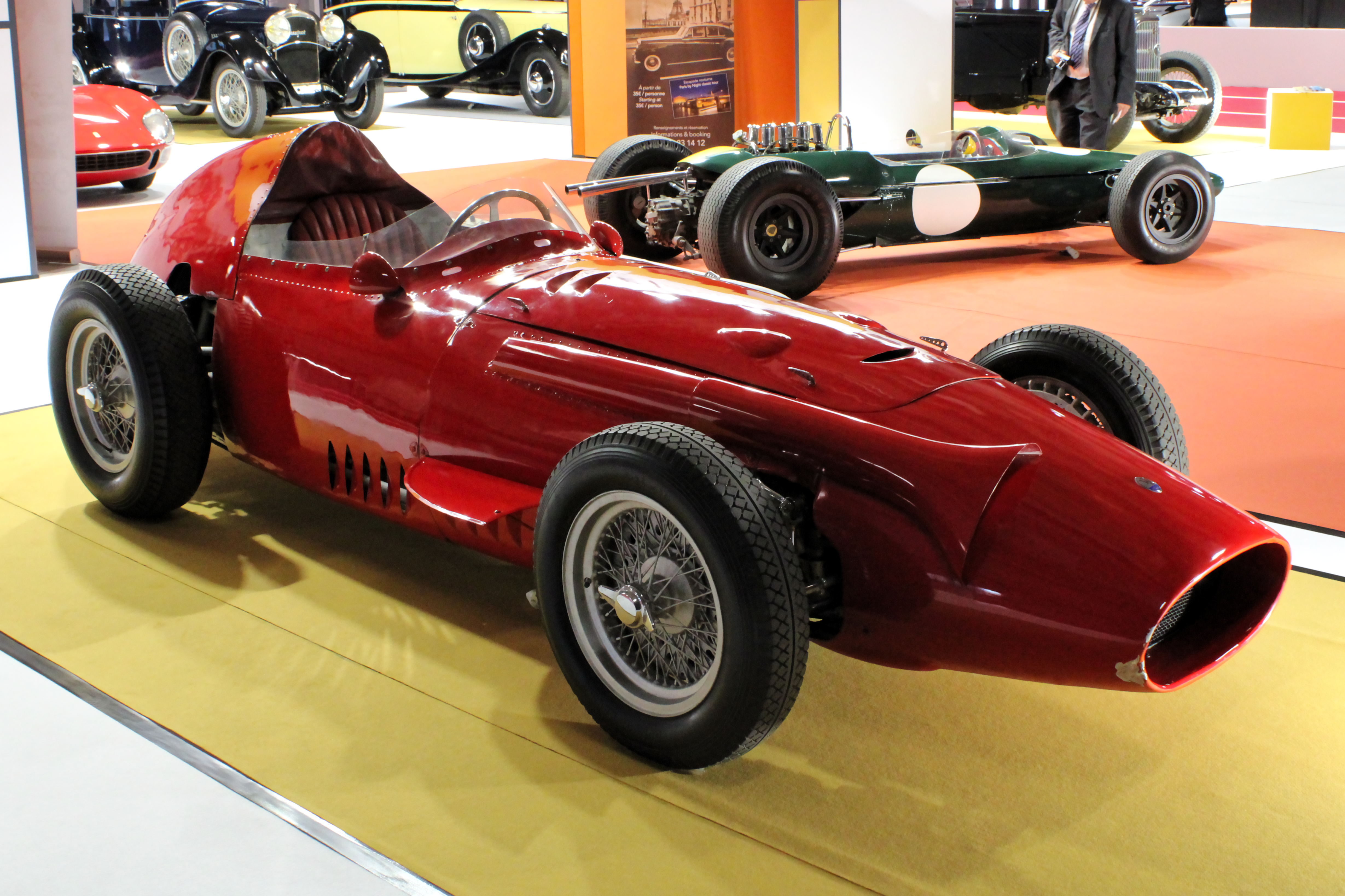 Maserati 250 F (1957) at Paris Motor Show 2018